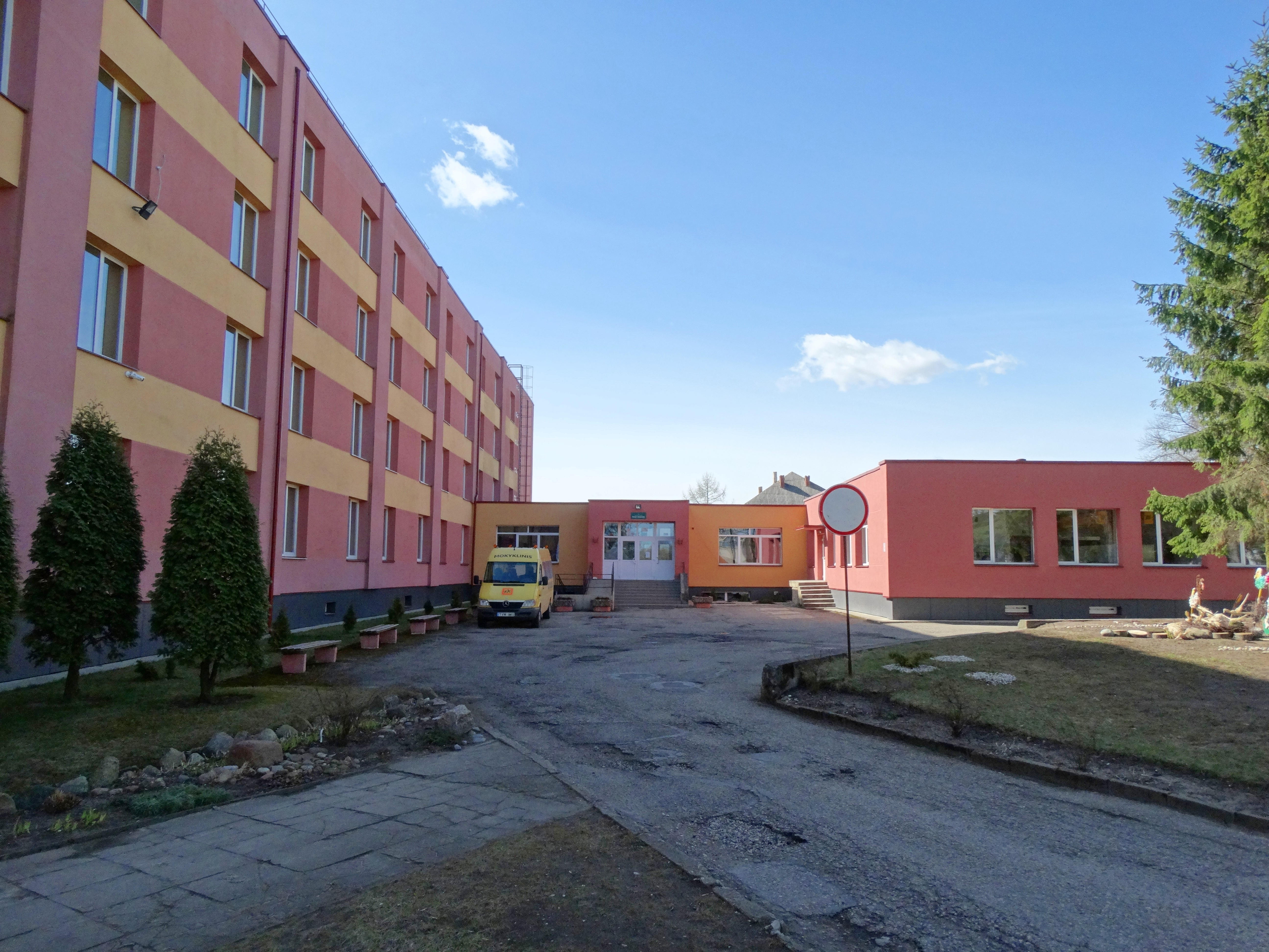 Šėta Gymnasium, Kėdainiai district, Lithuania